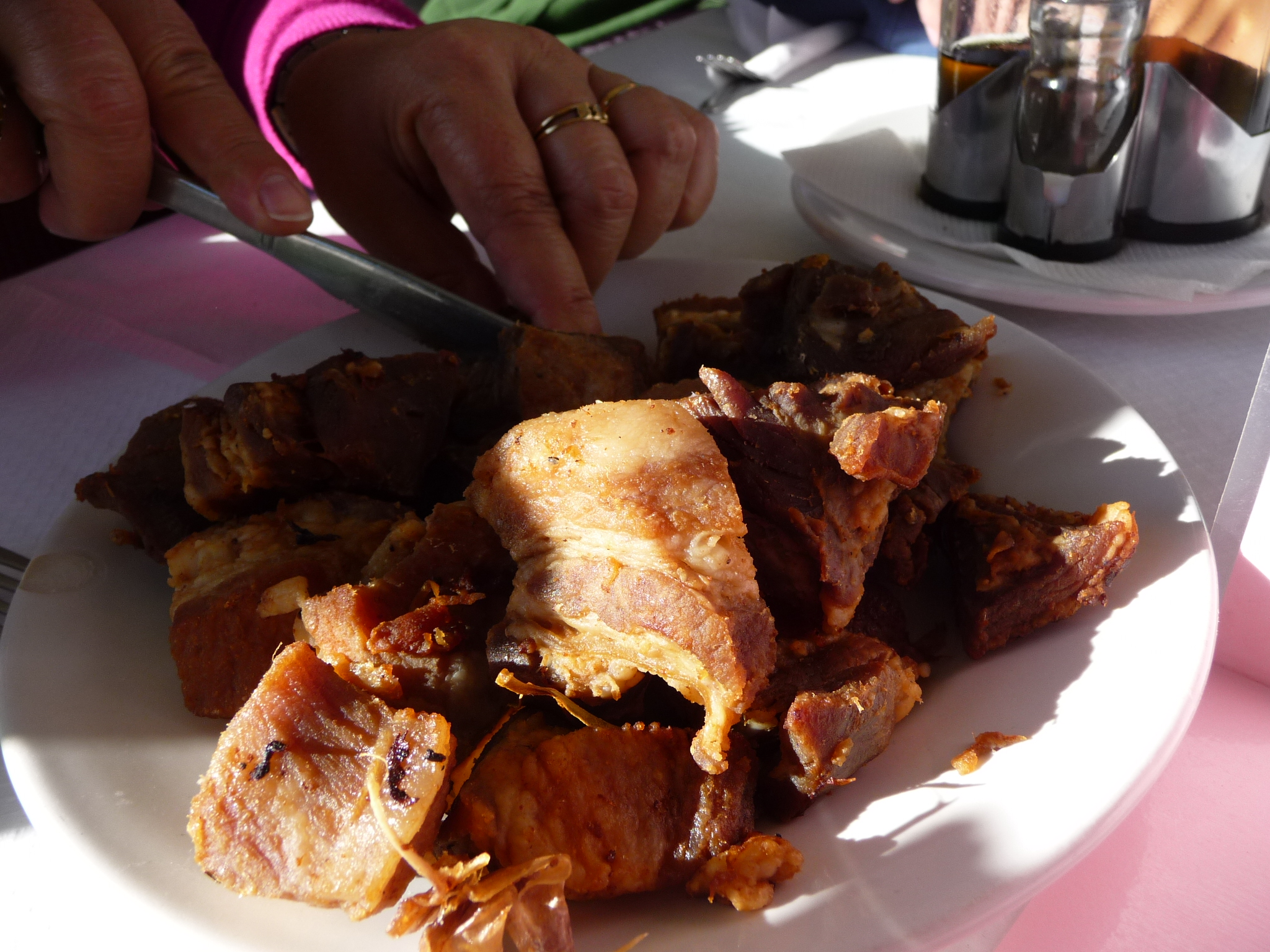 Chicharones-P1060339.JPG